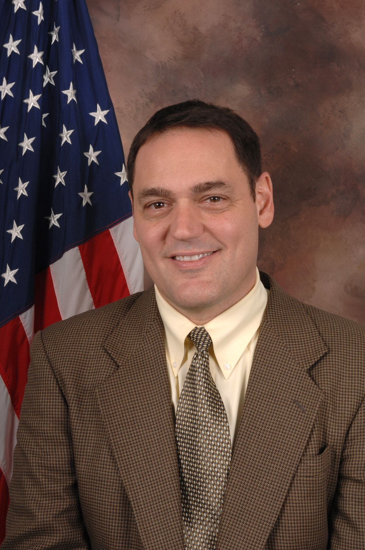 Zack Space, member of the United States House of Representatives.